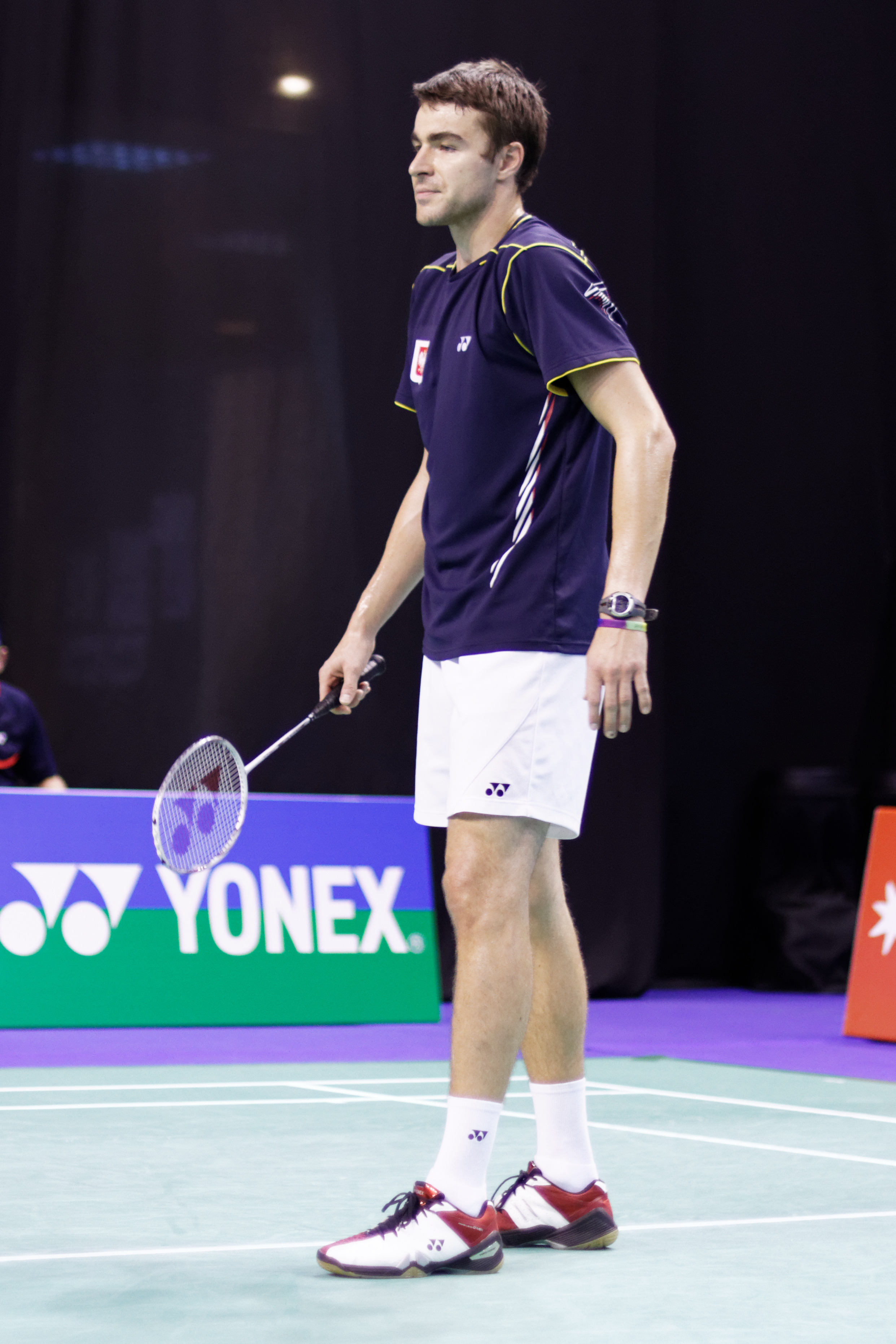 2013 French open. Men's doubles eightfinal. Łukasz Moreń and Wojciech Szkudlarczyk vs Mathias Boe and Carsten Mogensen.